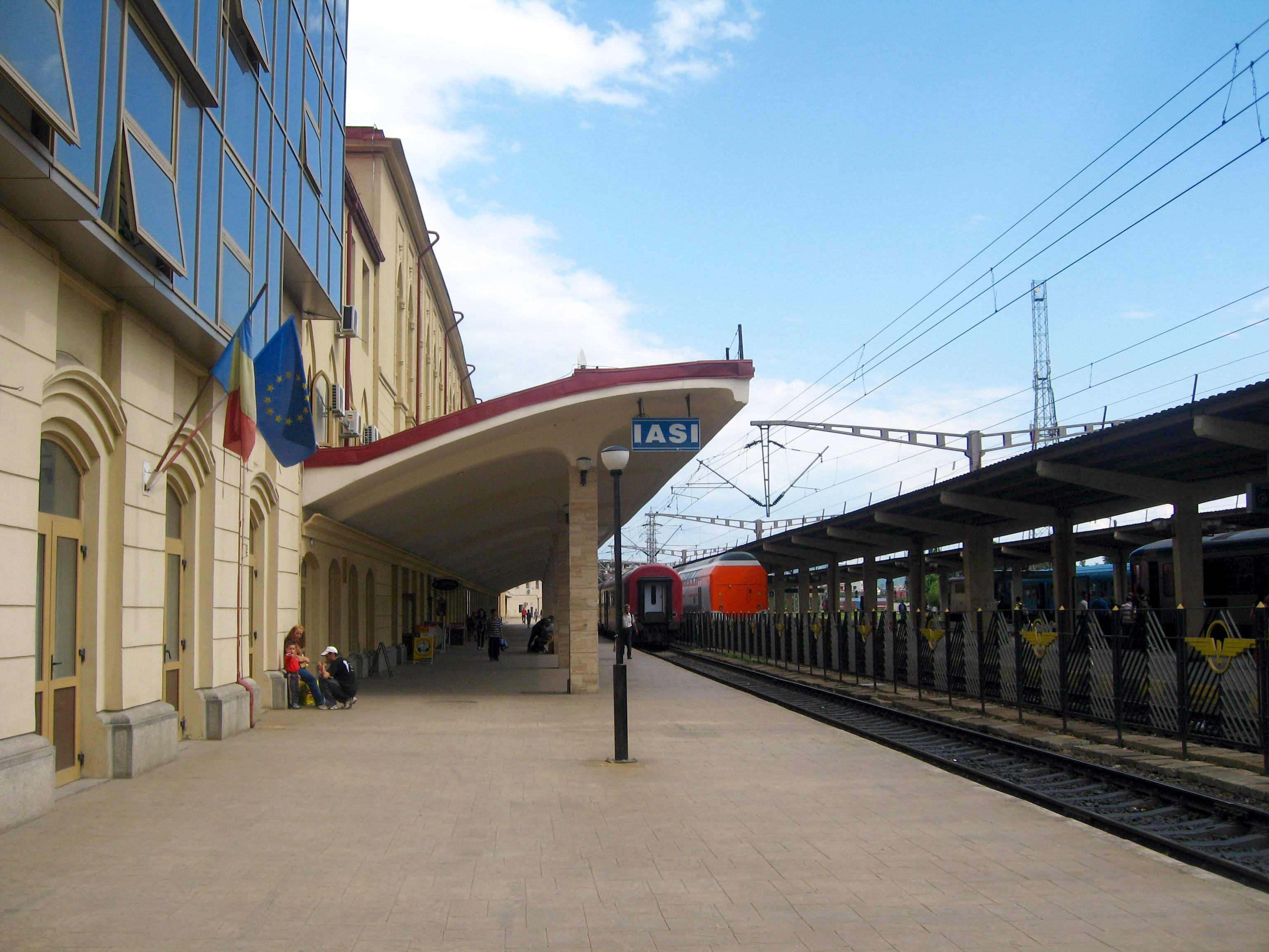 Iași Railway Stations